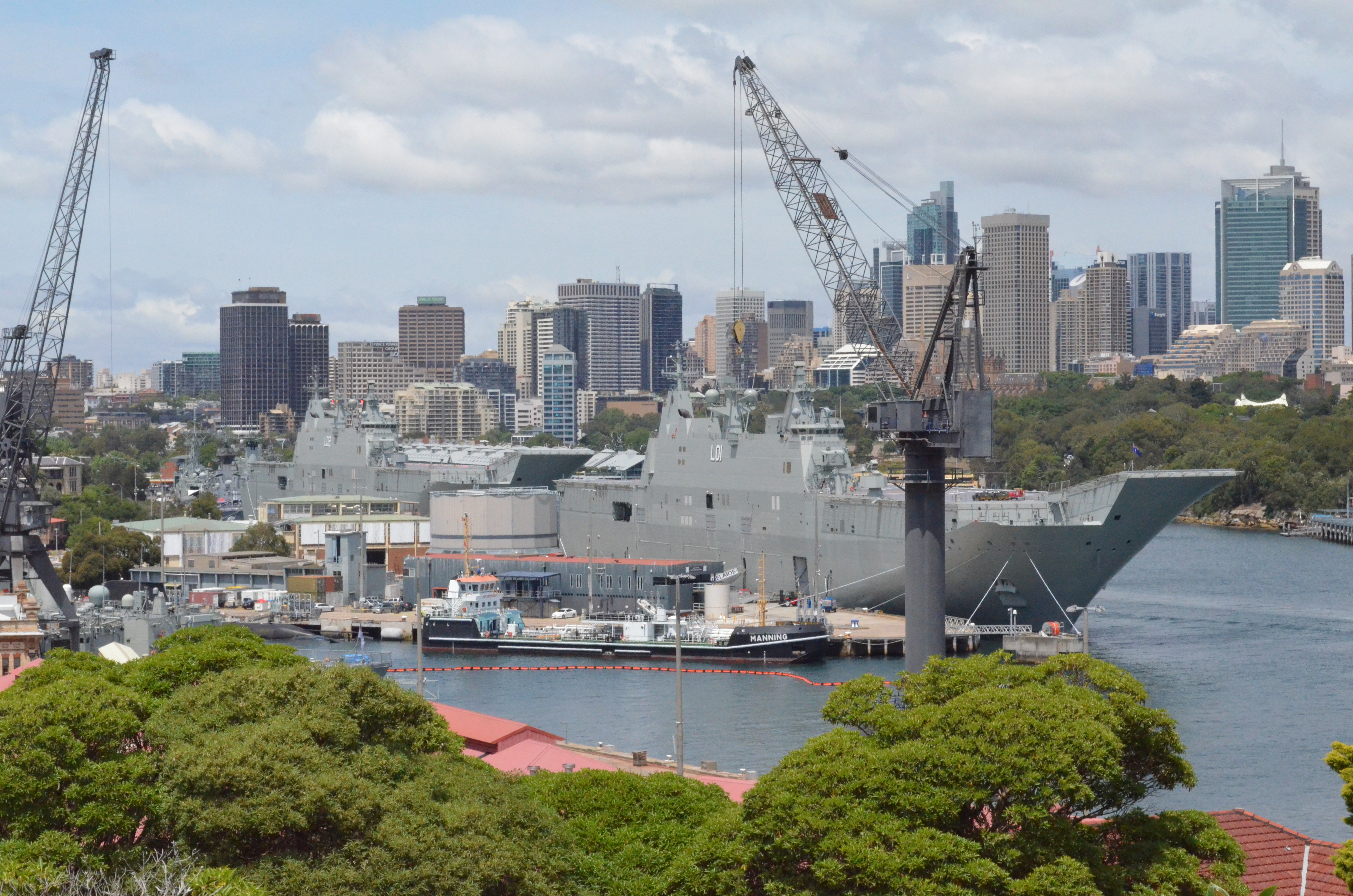 The landing helicopter dock ships HMAS Adelaide and HMAS Canberra dominating the wharfside at Fleet Base East